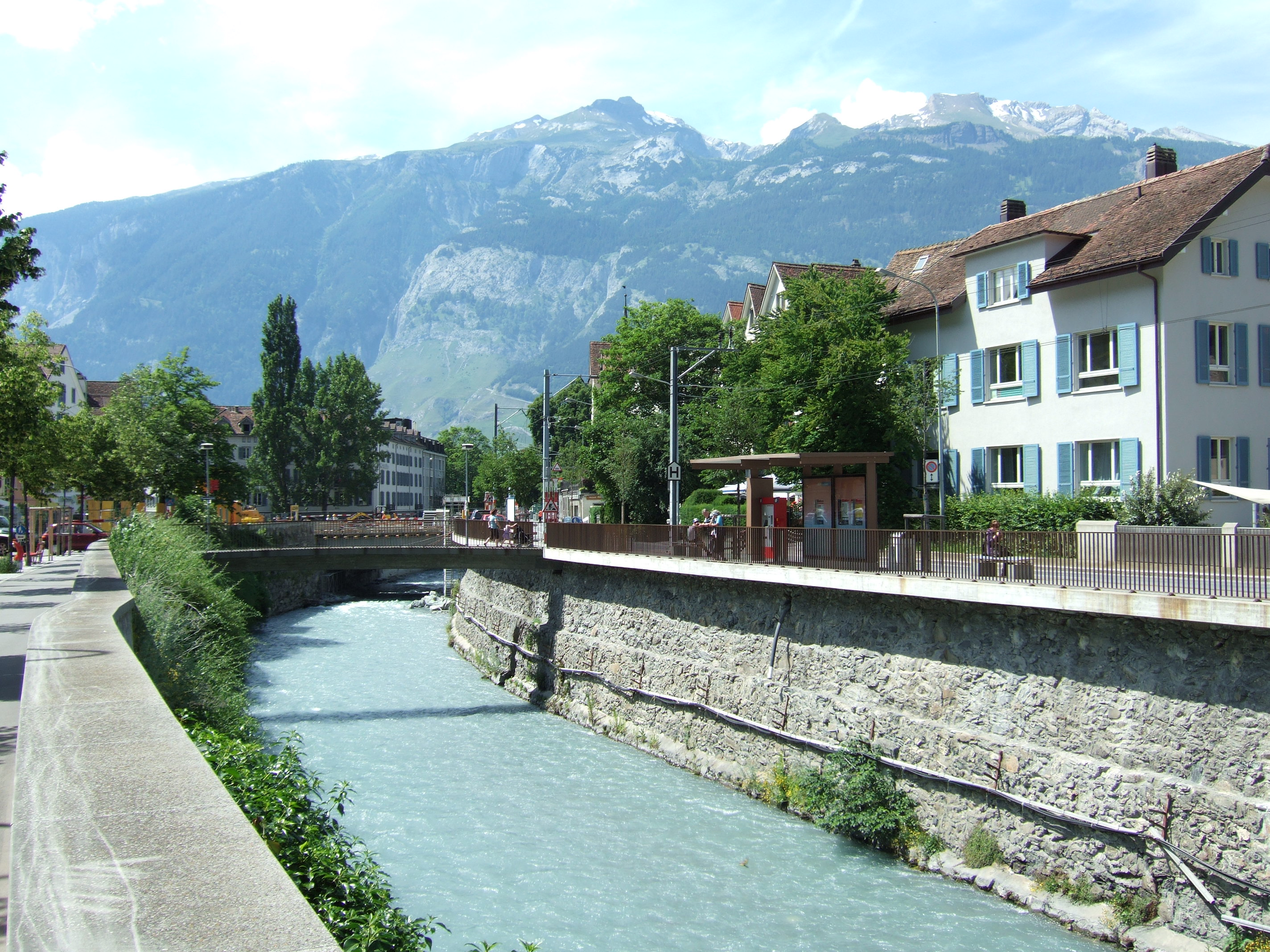 Chur Stadt (RhB) with river Plessur in Switzerland